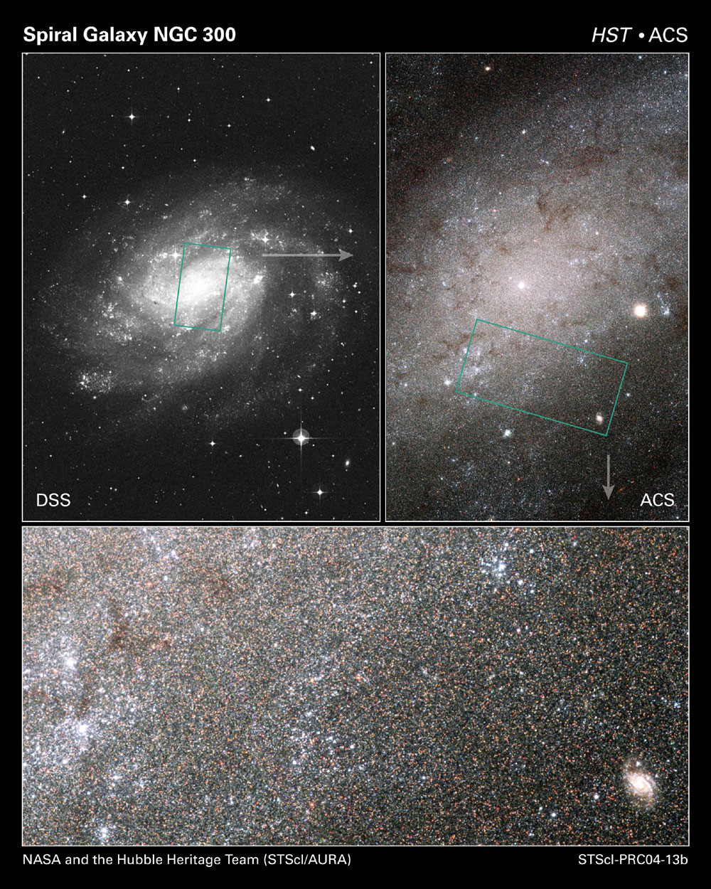 NASA image of the NGC 300 galaxy, taken from the Hubble space telescope. Individual stars are discernible.